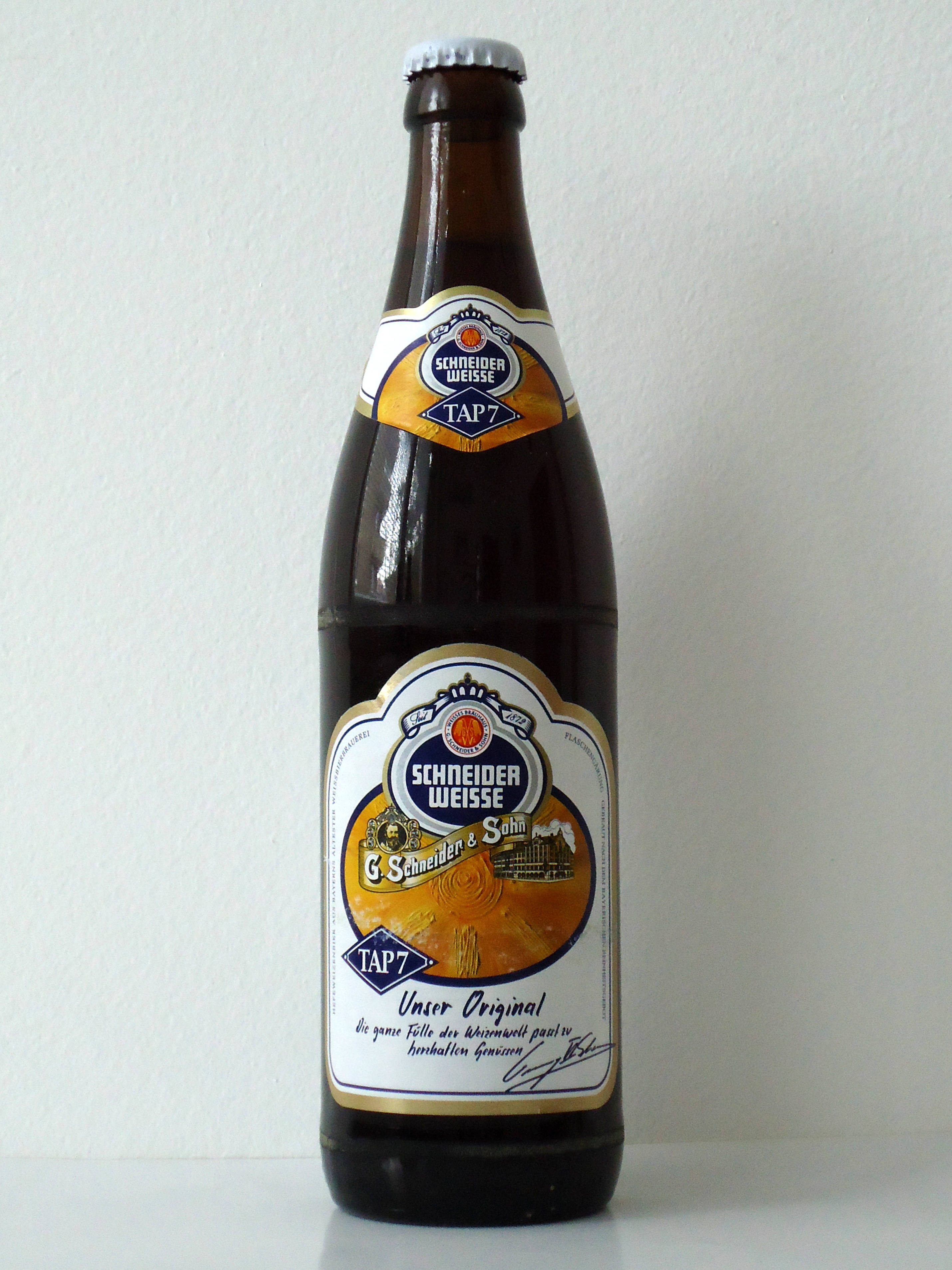 Schneider Weisse Tap 7 Unser Original beer